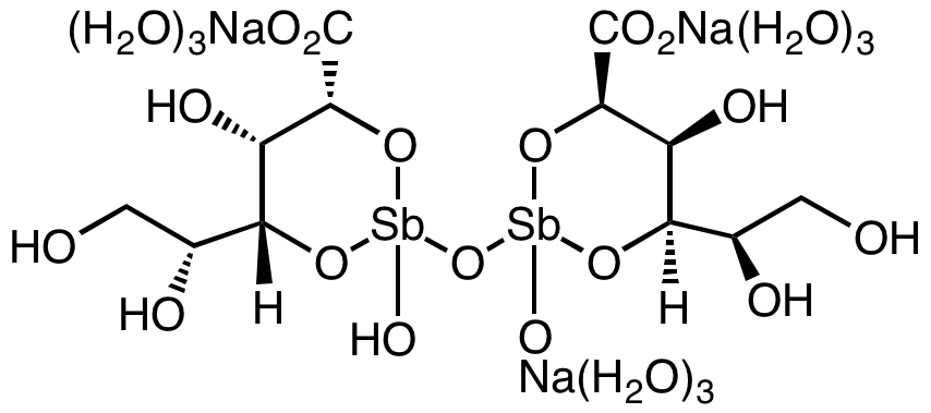 Sodium stibogluconate structure